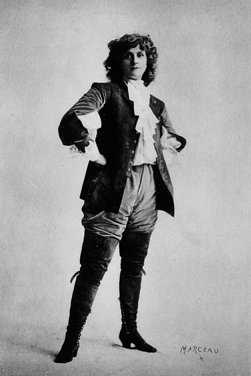 Henrietta Crosman as Nell Gwynn in "Mistress Nell"